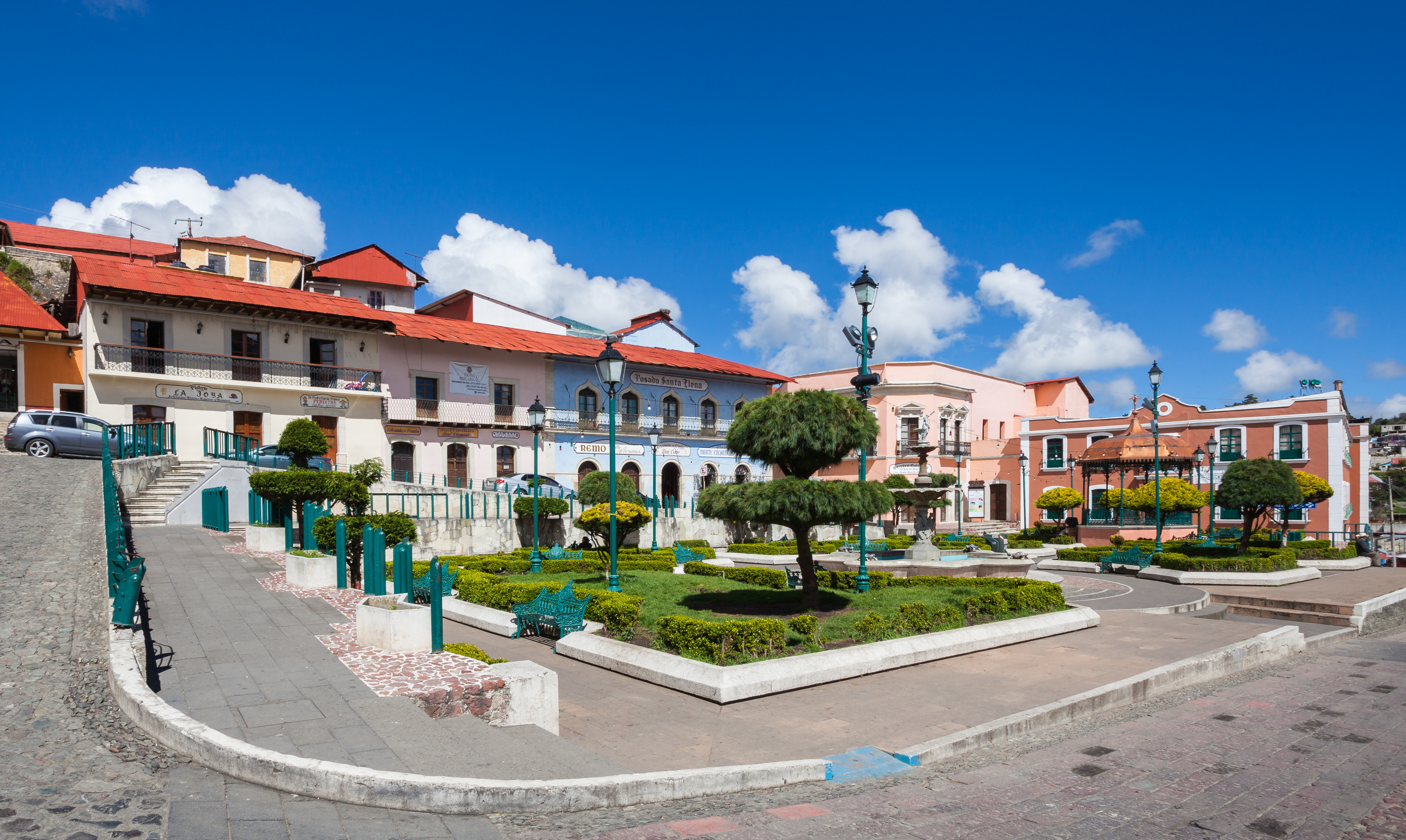 Main Square of Real del Monte, Hidalgo, Mexico